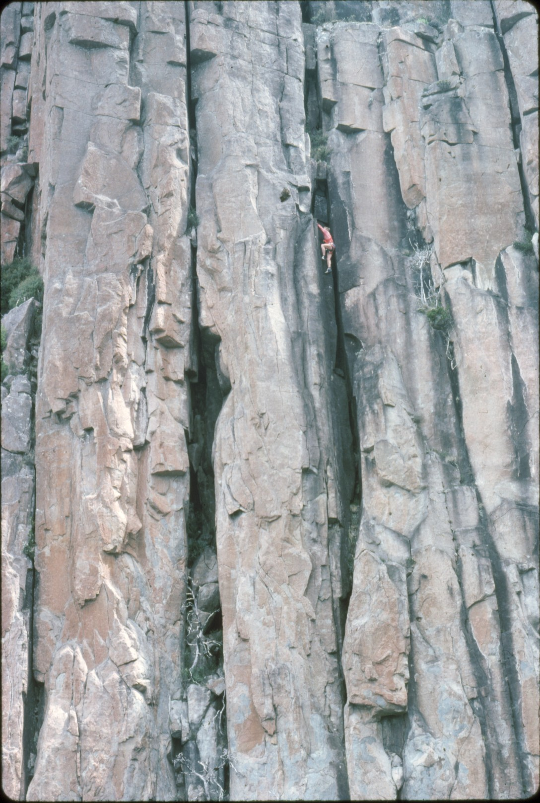 Bryan Kennedy solos the "Kennedy variant" direct start to Battlements Organ Pipes Mt Wellington Tasmania 1977